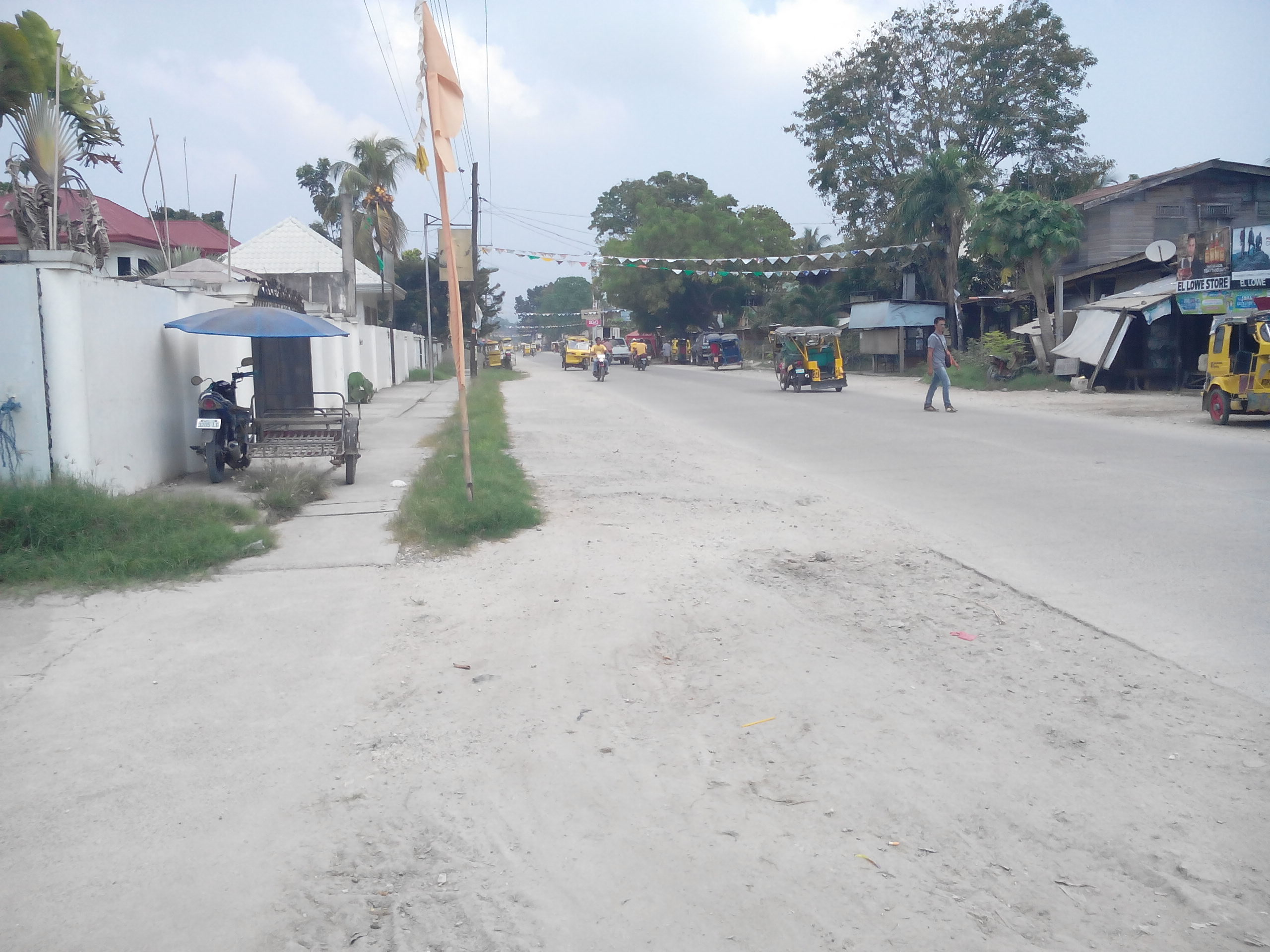 Street in Babak District, Samal Island Garden City, Philippines